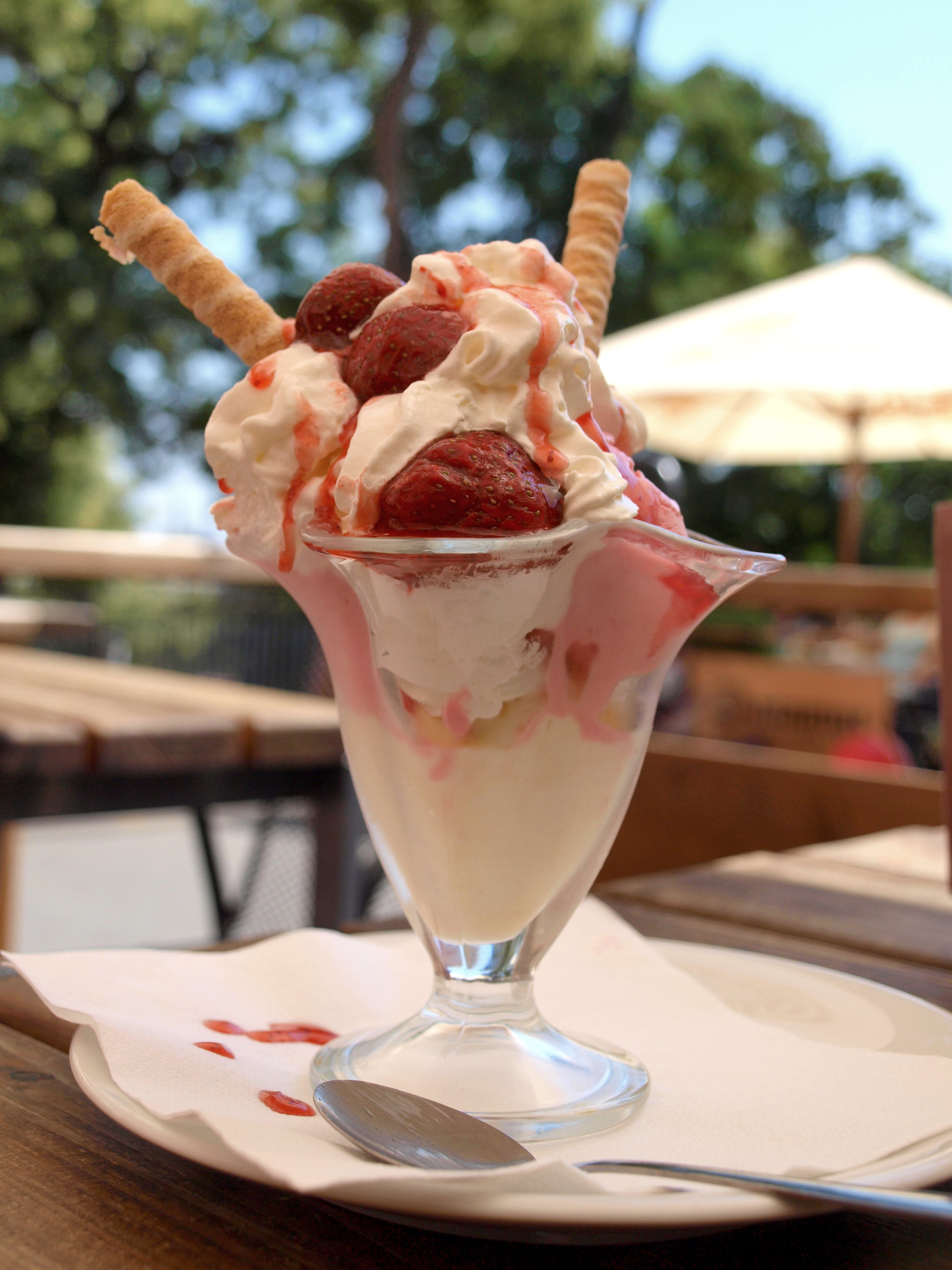 Ice cream sundae with strawberries